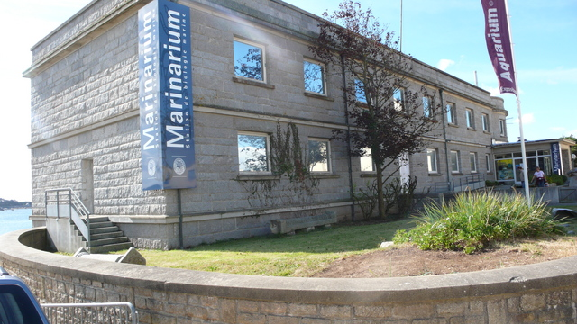 The Marinarium of Concarneau from outside